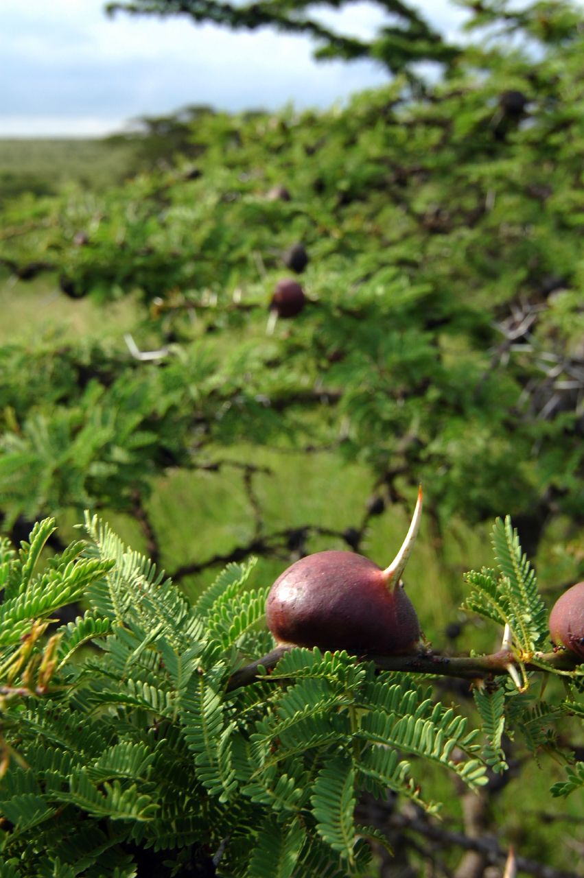 The Whistling Thorn (Acacia drepanolobium) A mouthful of that could change your perspective. This species of acacia grows two kinds of thorns. The main defense is provided by pairs 5cm long arranged nearly at a right angle. Smaller stipular spines grow between the pairs of big thorns. These emerge from hollow galls, bulbous swellings 2 to 3cm across. One of four different species of ant lives in each of these igloos, which they open up by cutting holes into them. A dying bush whistles as the wind blows over these entrances. Most acacias make toxins that it rushes to leaves that are under attack by browsers. The whistling thorn doesn't. It is infested with stinging ants that swarm out and prepare to bite anything they can when the branch is disturbed. Most browsers seem to avoid infested bushes, perhaps because the ants stink of formic acid.